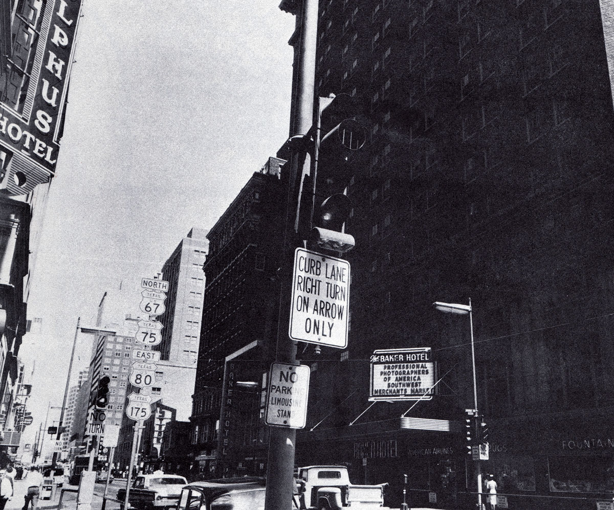 Downtown Dallas in 1965, with highway markers for U.S. Route 67, U.S. Route 75, and U.S. Route 80, and the first southbound marker for U.S. Route 175. This road was formerly numbered Texas State Highway 1.